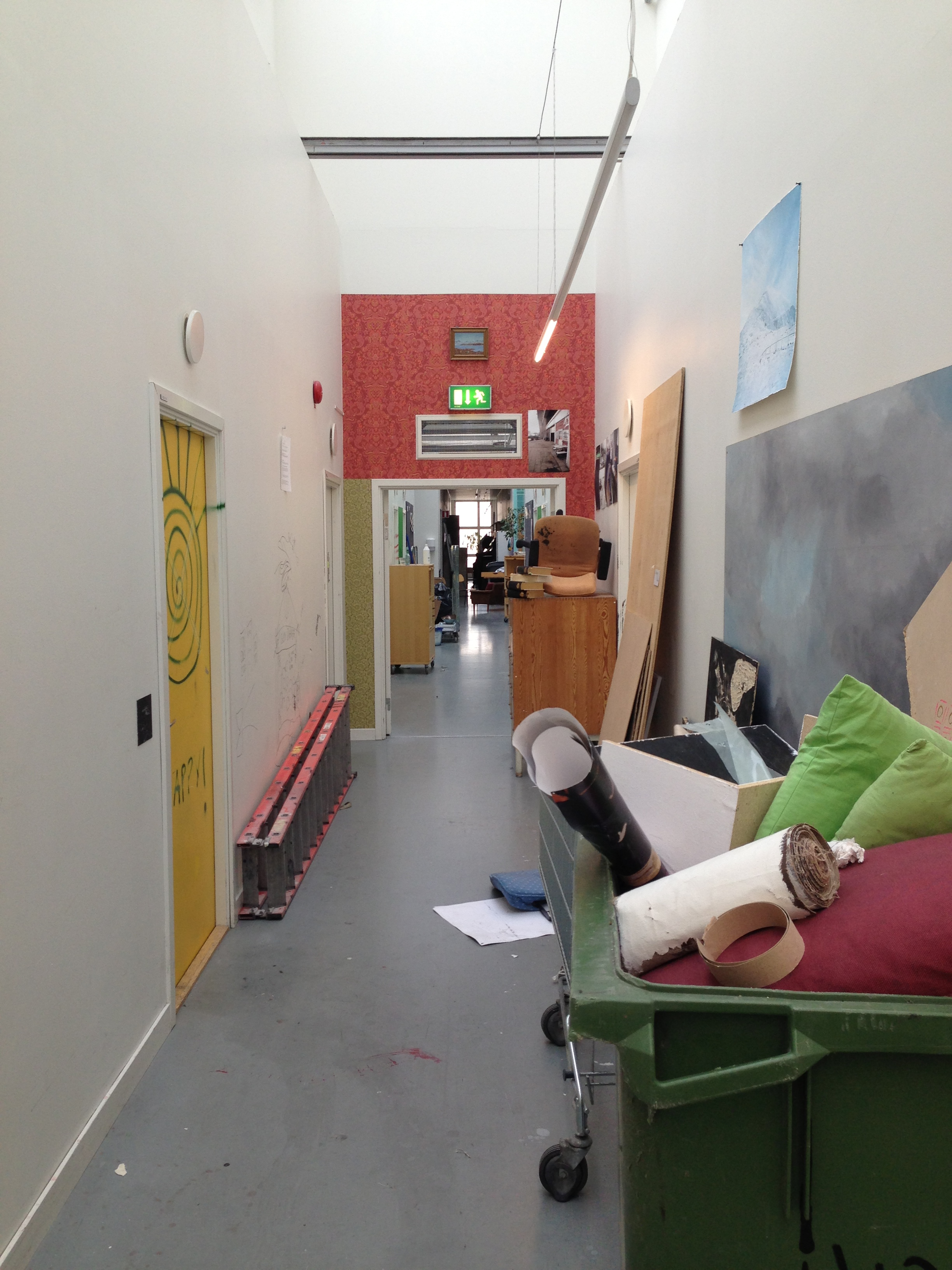 a corridor at the art department at konstfack, stockholm, 2013